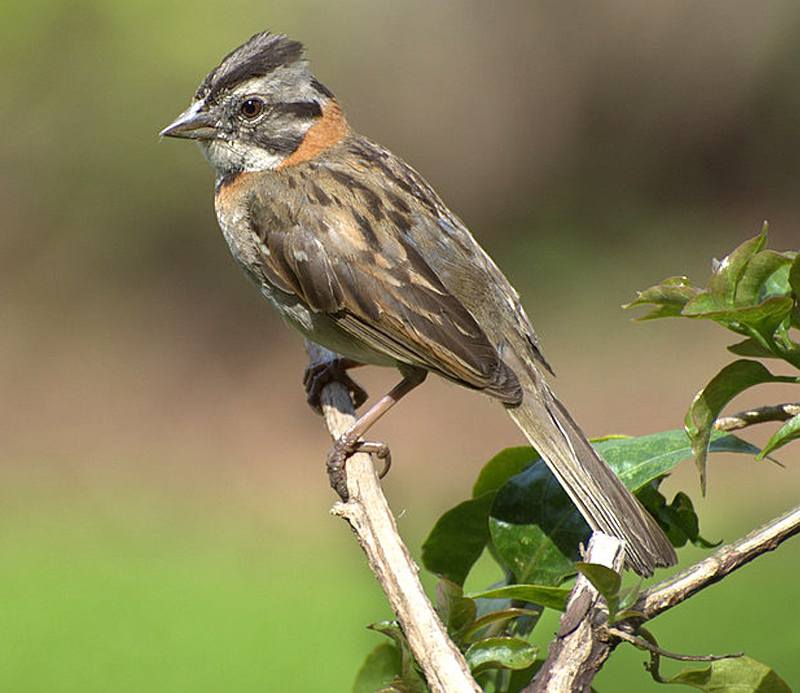 A Rufous-collared Sparrow (Zonotrichia capensis). Parque da Independência, Museu do Ipiranga, São Paulo.